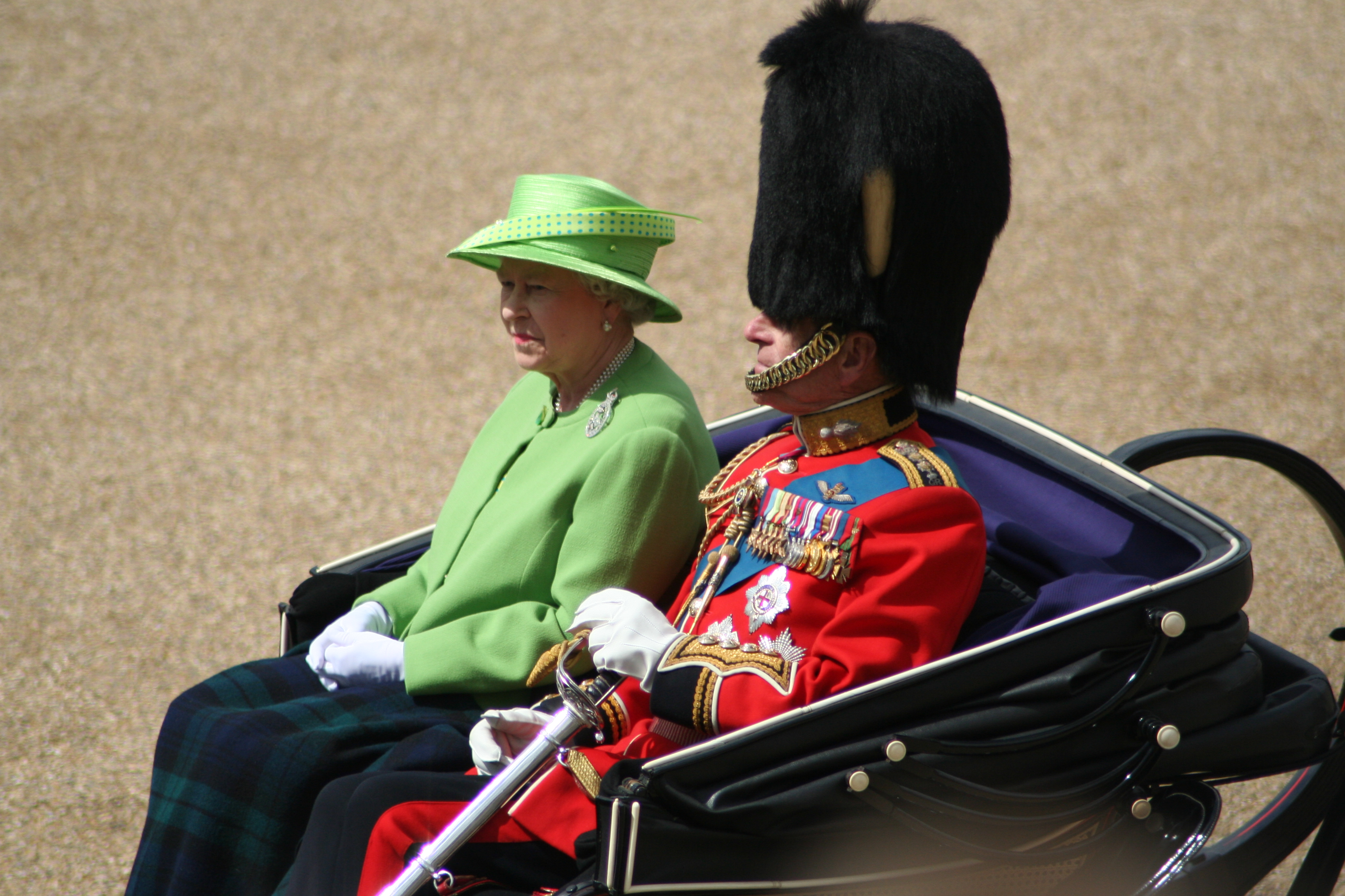 Queen and Duke of Edinburgh at Queen's Official Birthday parade 2007